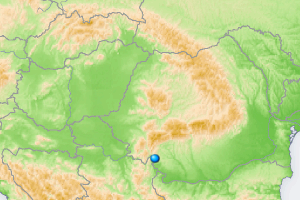 Iron Gates in Carpathian Mountains